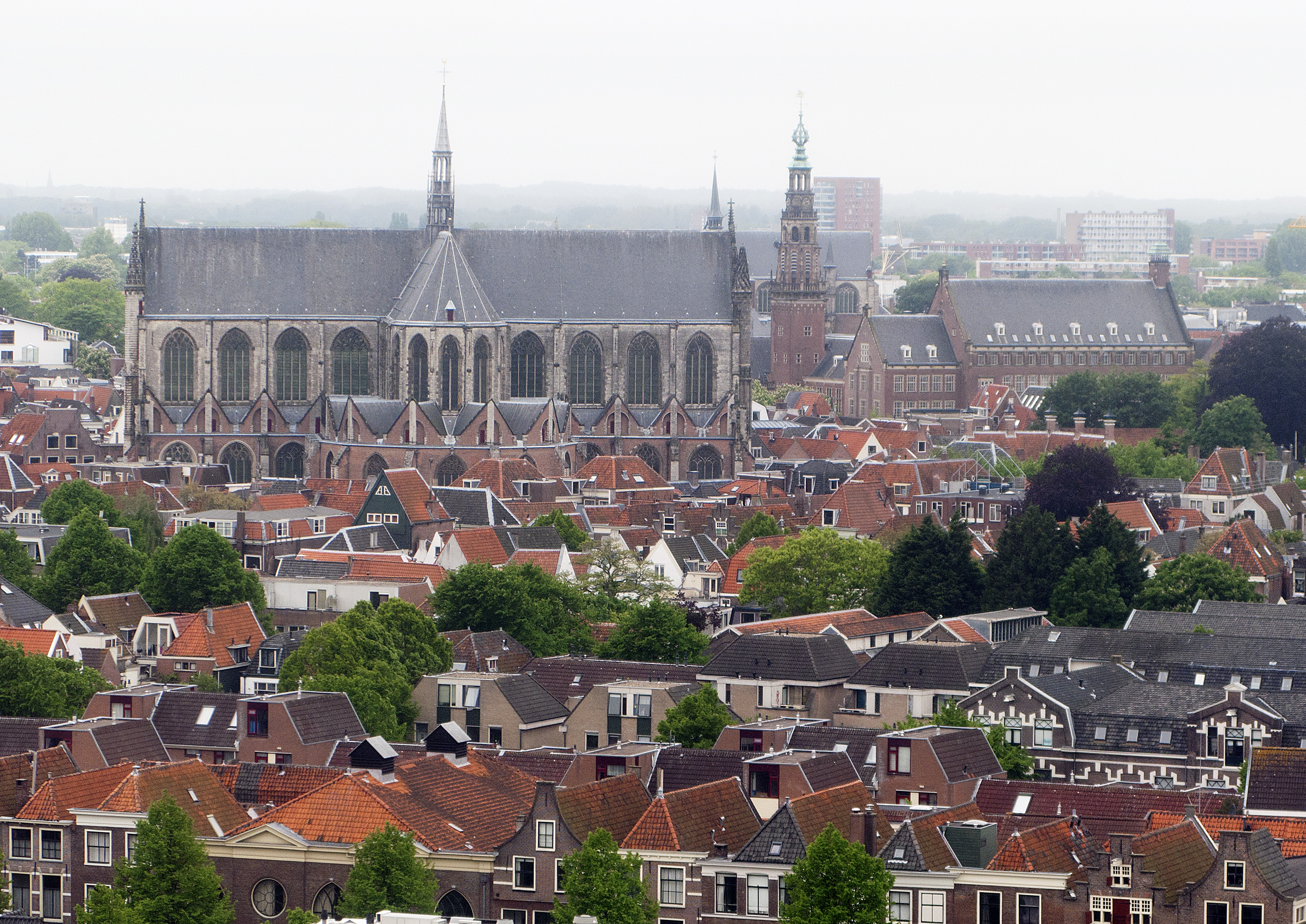 Leiden, Hooglandse Kerk, seen from the flour factory